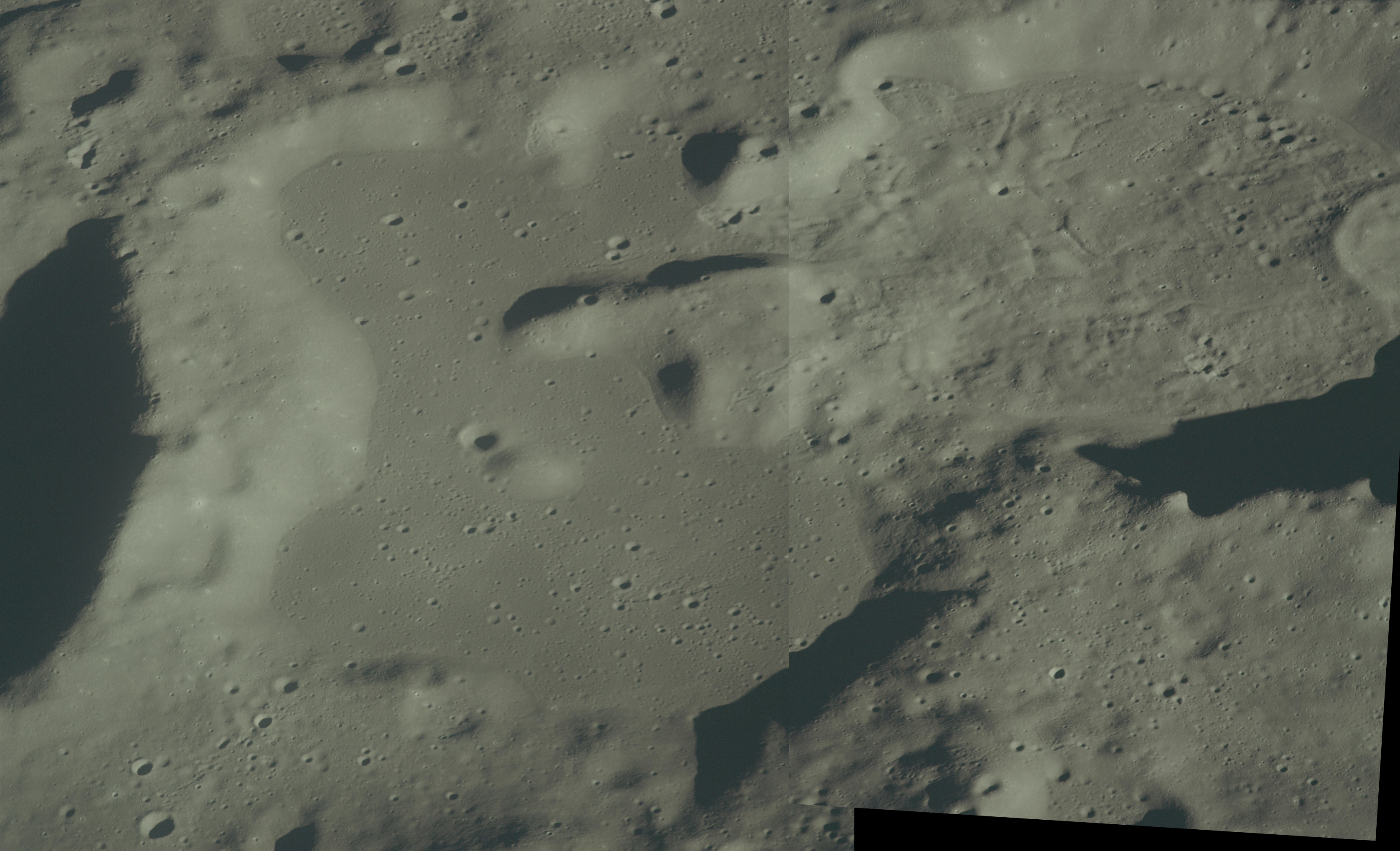 Mosaic of two images from Apollo 17 showing Lacus Oblivionis at left and the crater Sniadecki Y in upper right. Facing southeast.